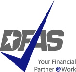 Defense Finance Accounting Services (DFAS) Official Logo adopted October 2002.